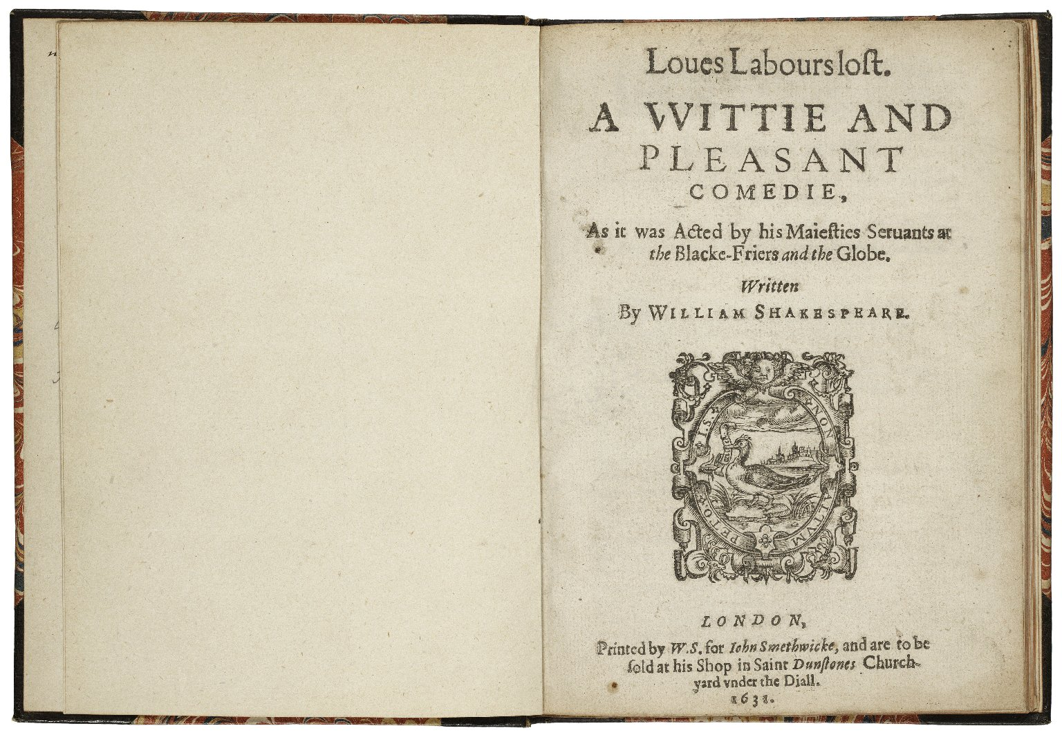 The title page from the second quarto edition of Love's Labour's Lost, printed in 1631.